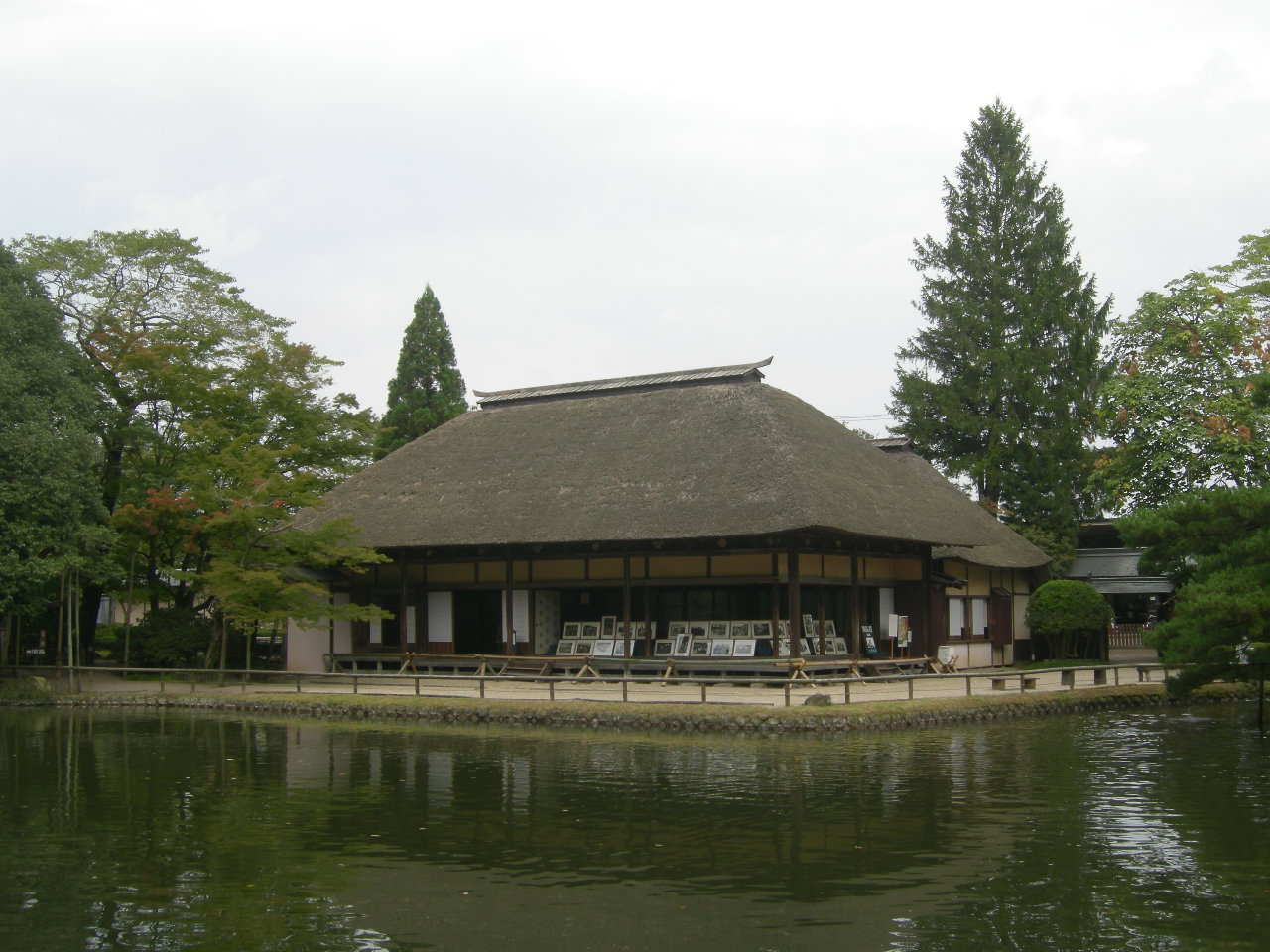 Kyu-Yubikan （Iwadeyama,Osaki city,Miyagi pref,Japan）